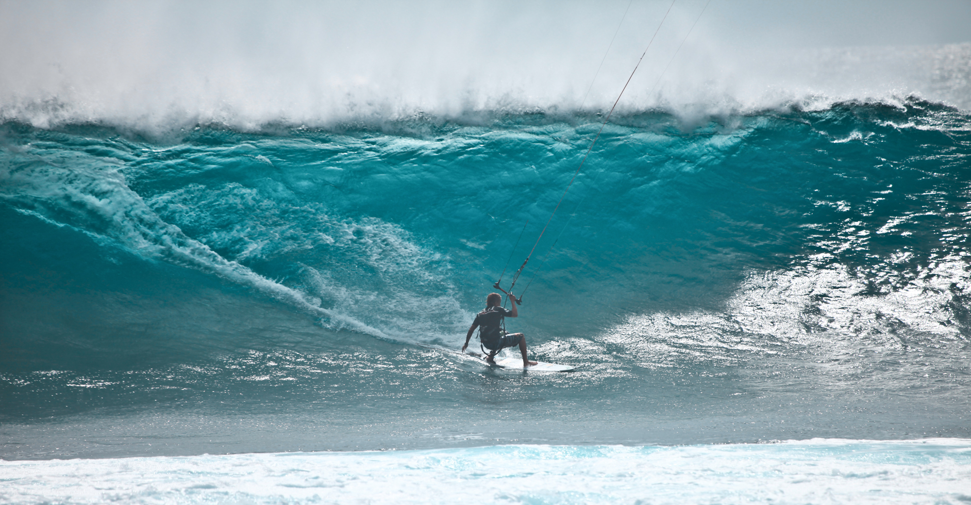 Kayt